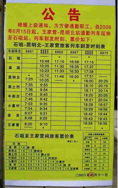 The timetable and fare for the commuter rail service on the narrow-gauge rail lines from Kinming North Railway Station, as of 2008